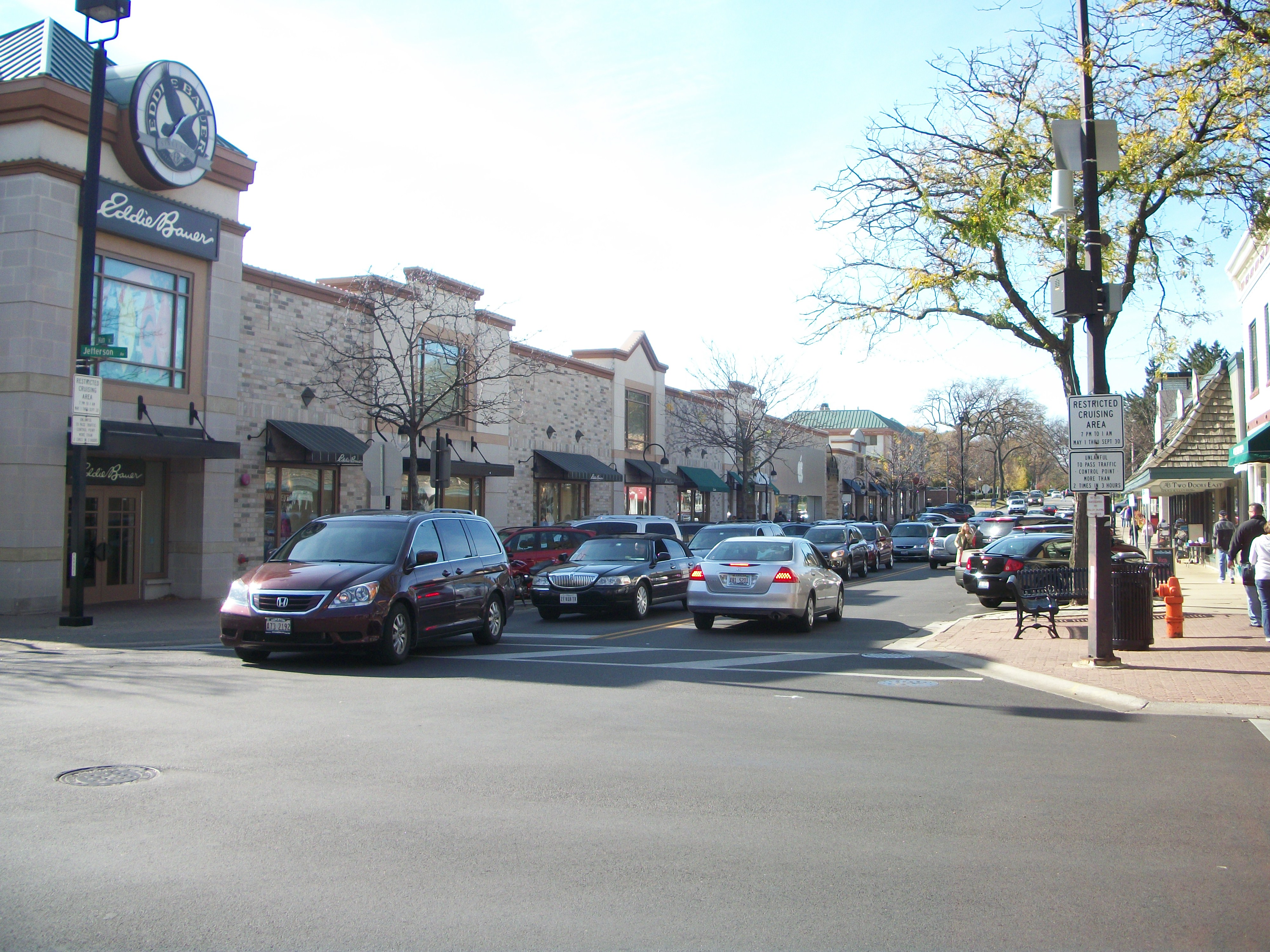 Downtown Naperville